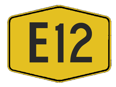 Highway shield for Malaysian Expressway E12